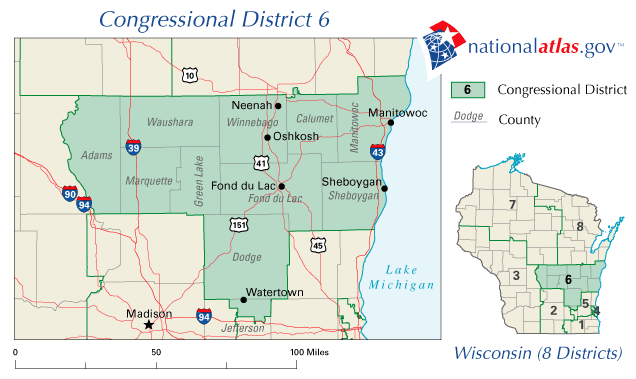 Map of Wisconsin's 6th congressional district. Downloaded from and converted to PNG.